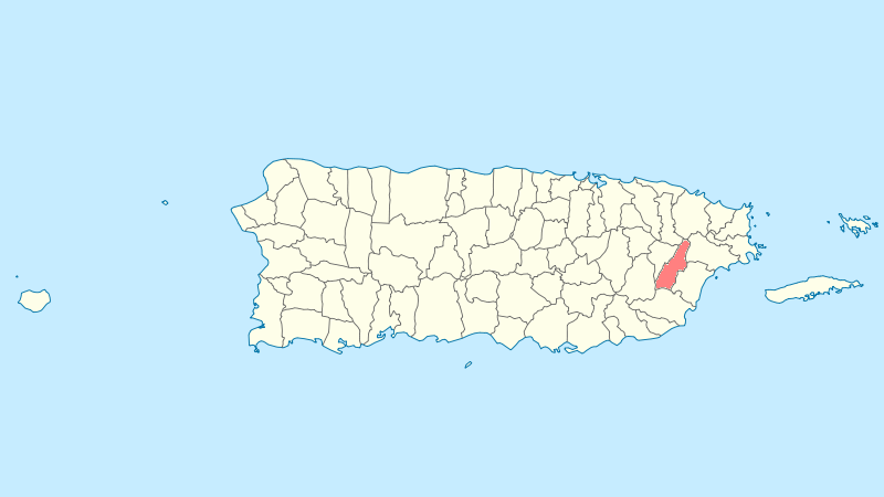 Municipal locator of Puerto Rico